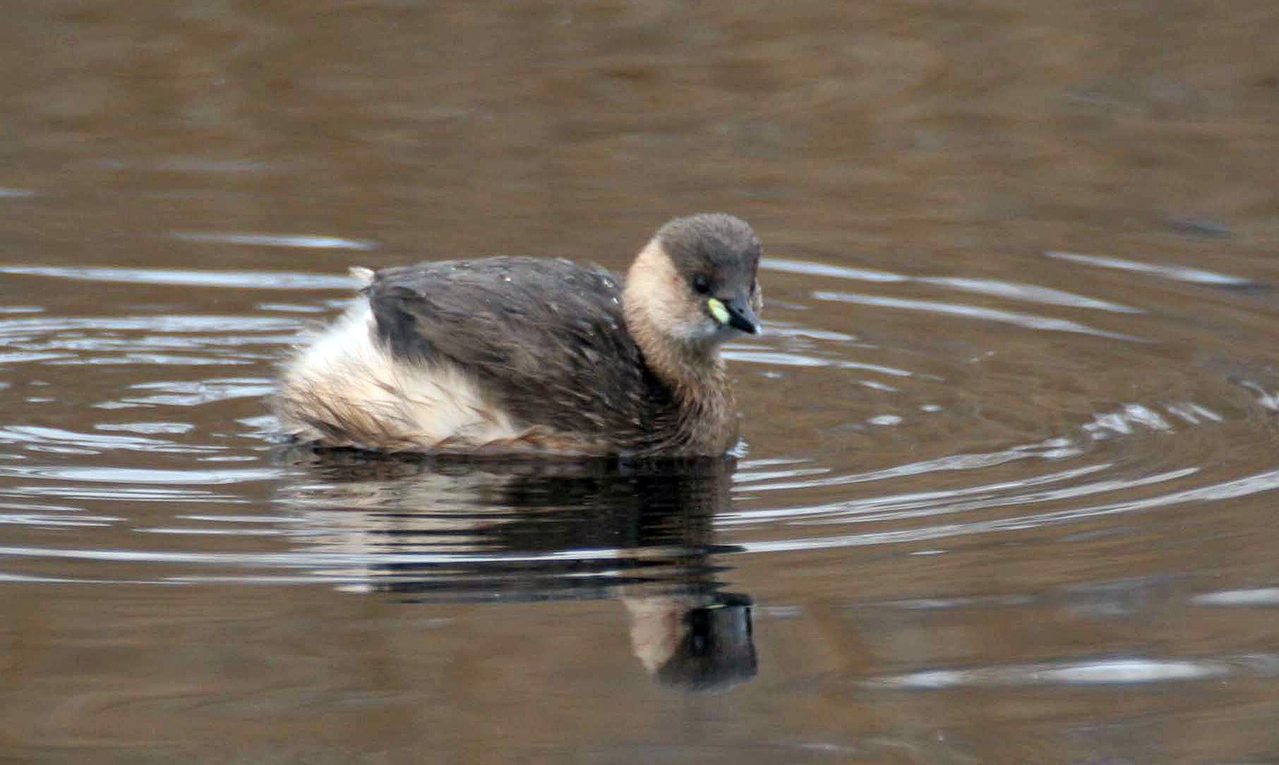 Little Grebe in winter plumage Penrhos LNR, Môn/Anglesey Rhion Pritchard